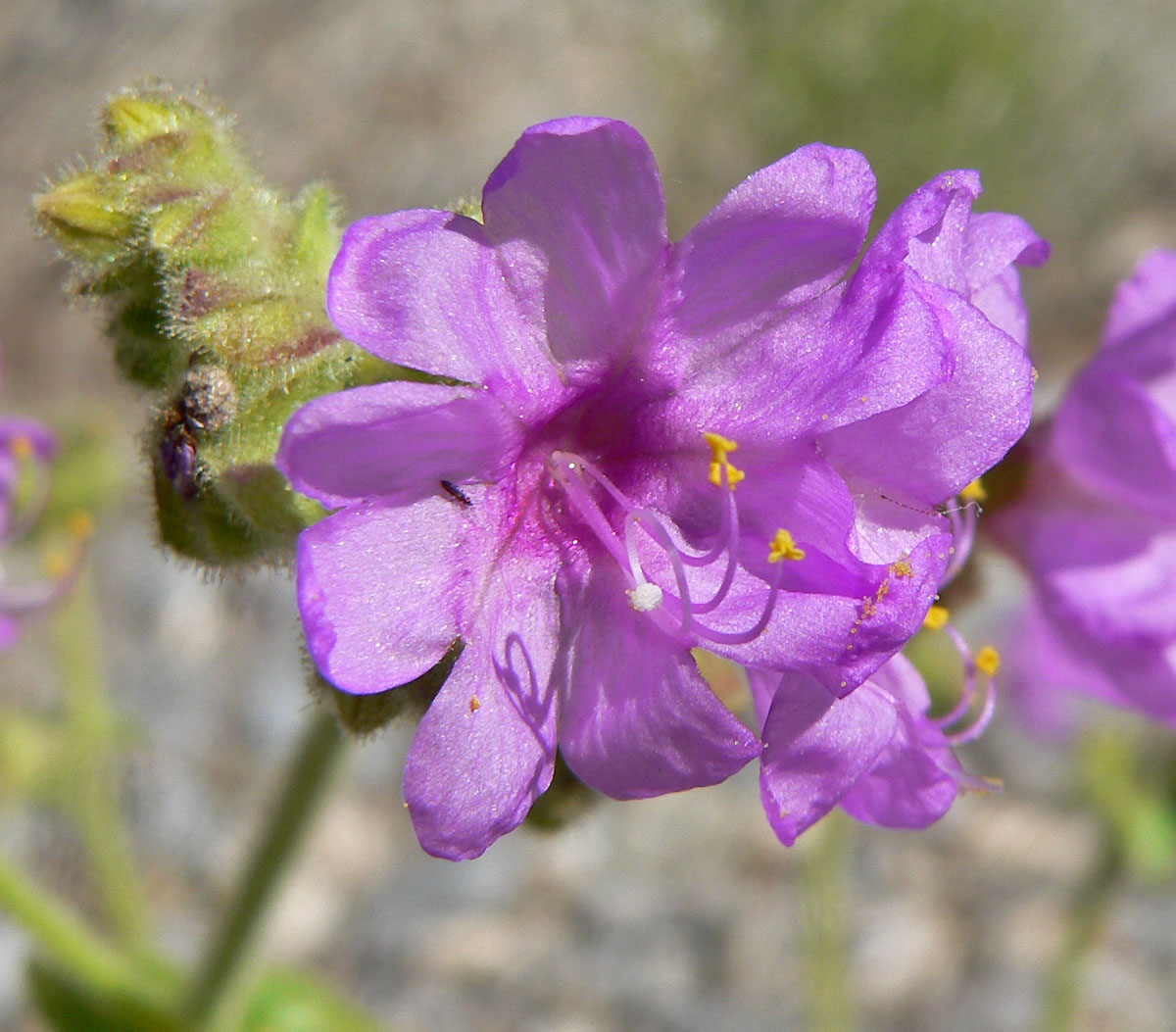 Mirabilis albida in Kyle Canyon, Spring Mountains, west of Las Vegas, Nevada